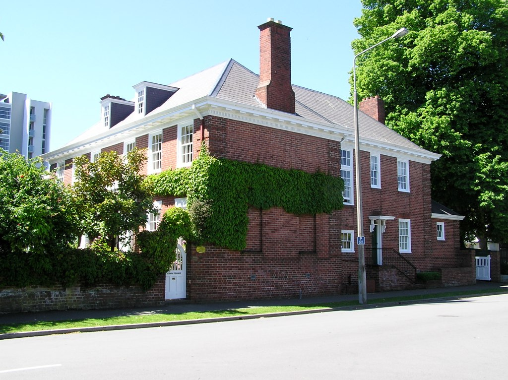 Christchurch, NZ, November 2008, before the quake. Cnr Park Terrace and Peterborough Street. The Weston House Christchurch, NZ, November 2008